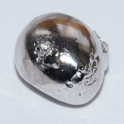 The platinum group metal rhodium is the rarest and most valuable stable metal on earth. It is needed in many chemical applications as a catalyst, like for example in the industrial production of acetic acid. Therefore rhodium is very expensive and its price fluctuates strongly. In catalytic converters, it reduces the amount of toxic material that arises from the combustion. Rhodium is furthermore used for plating high-grade mirrors and jewellery. Rhodium is very hard, ductile and noble.